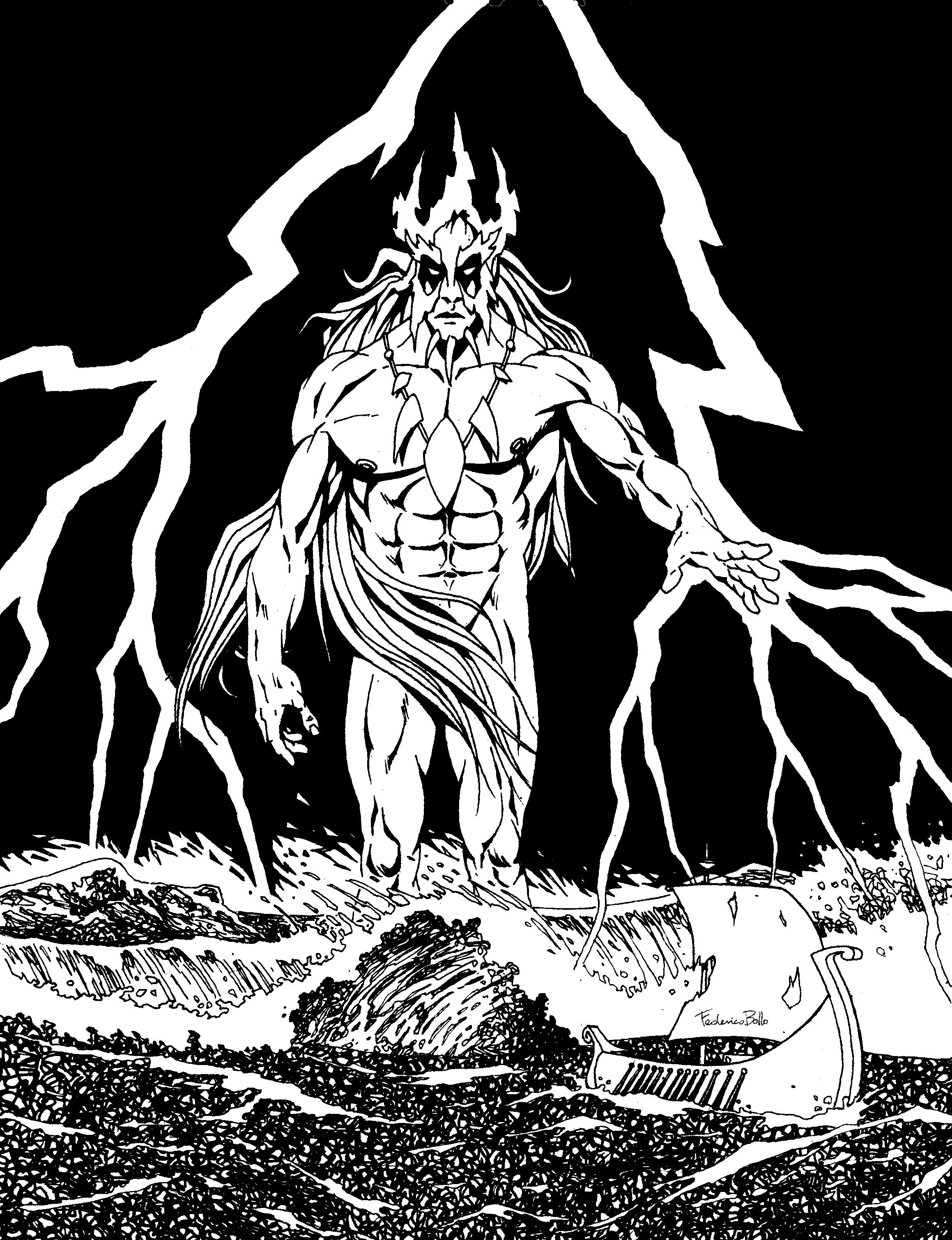 Ossë is a fictional character in the works of J. R. R. Tolkien. He is introduced in The Silmarillion as an angelic being known as a Maia, associated with Ulmo, one of the Valar.